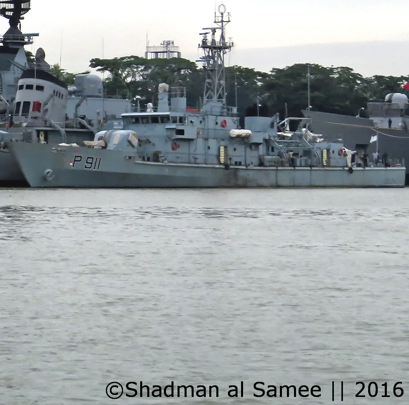 This picture crop from a picture file already in wikipedia commmons.Original picture file name "Bangladesh Navy ships (27798620646).jpg".I crop this picture to use in a article about "BNS Madhuati" in wikipedia.